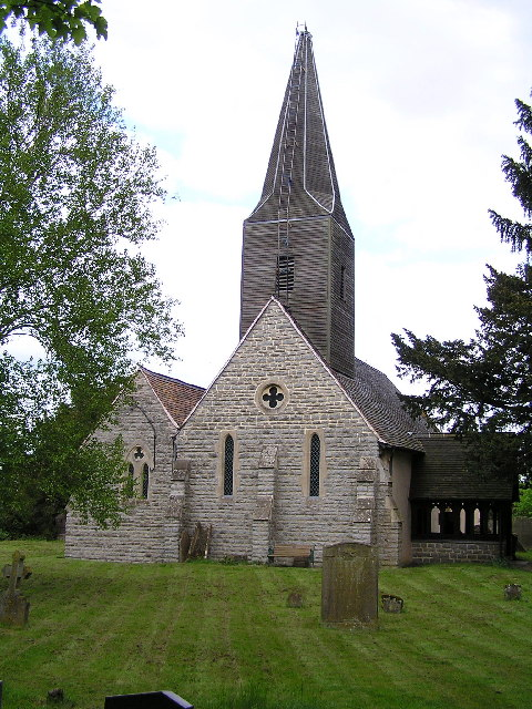 Parish church of St John the Baptist, White Ladies Aston, Worcestershire, seen from the west